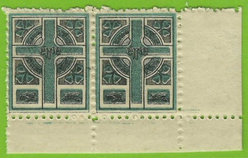 1907 propaganda stamps for Sinn Fein.